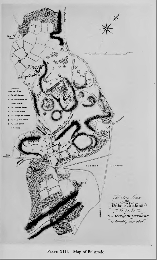 Map of Bultstrode, image in book Humphry Repton (1752-1818), The Art of LANDSCAPE GARDENING, page 120